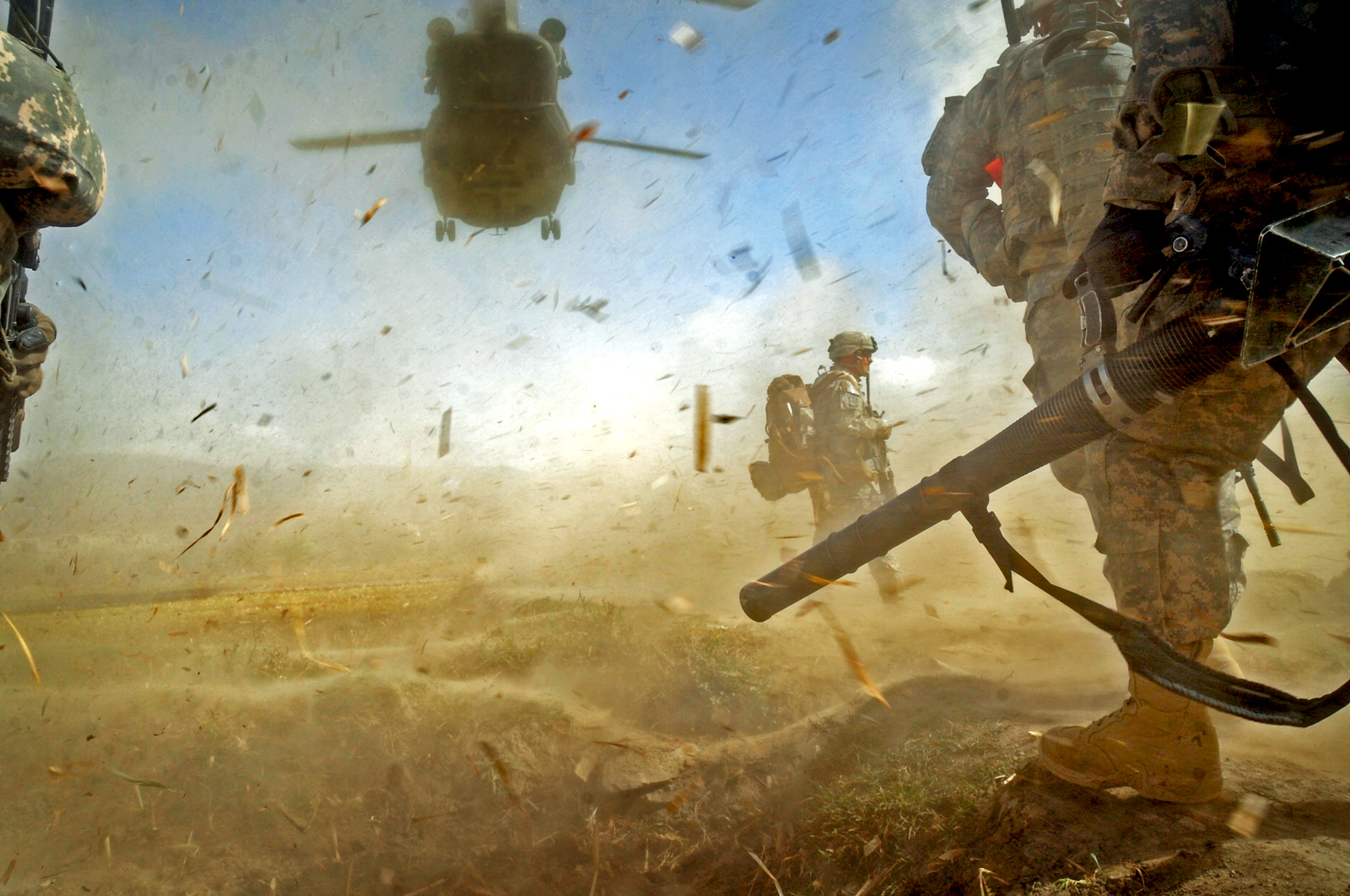 US Soldiers from 4th BCT(ABN), 25th ID, brace against the debris from a Chinook helicopter as they prepare to exfiltrate after a completed mission in the Bermel District of the Paktika Province. Photo by Andrya Hill, United States of America.